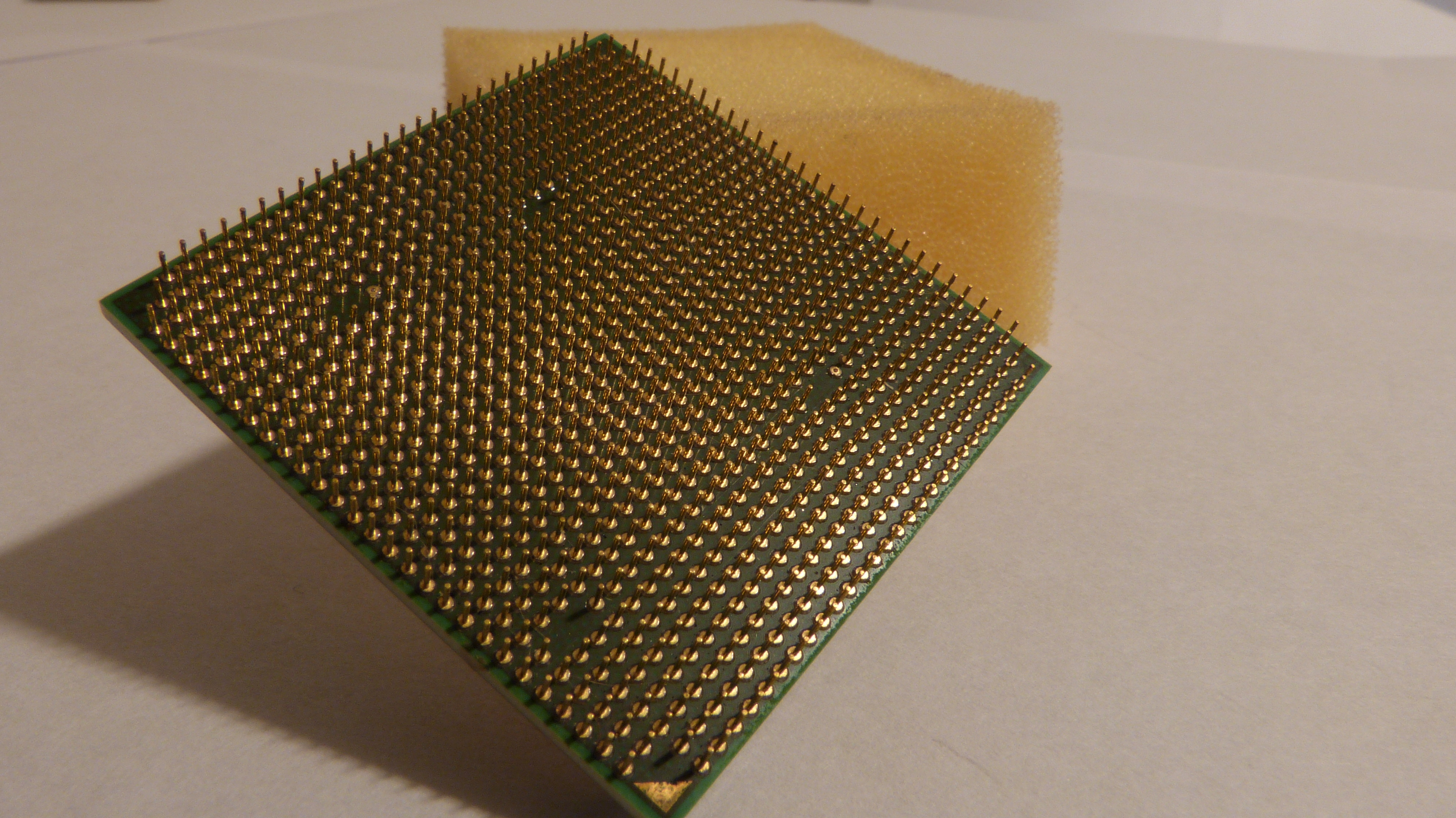 The underside of an AMD Phenom X4 9750 CPU. Intended for use on the "Pin Grid Array" page, as it shows an example of a PGA processor that is more modern. Unfortunately, the processor in question is missing two (or more) of its pins.